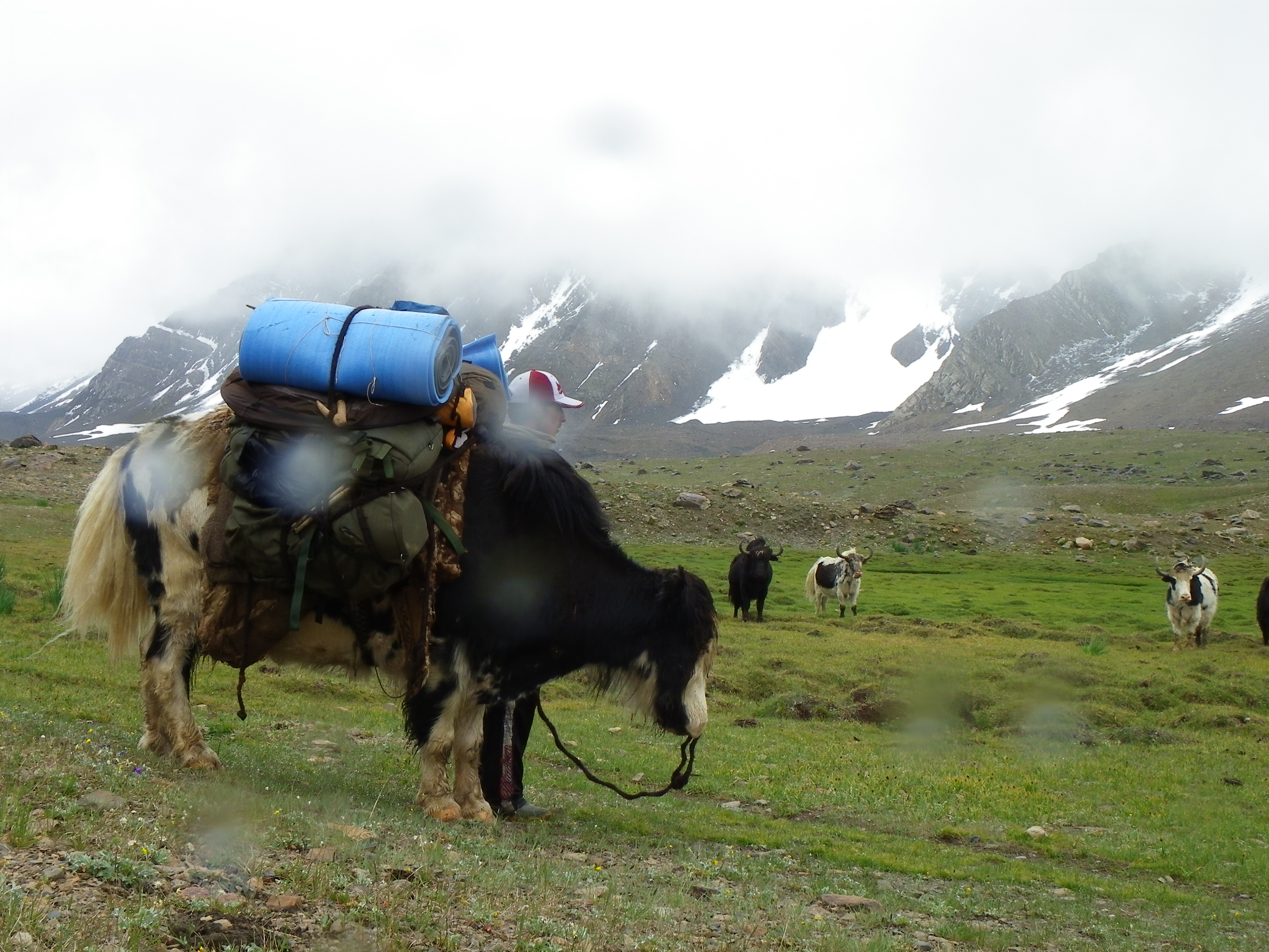 Yak-A common load carrier above 13,000 feet at Shuinh for local people and tourists